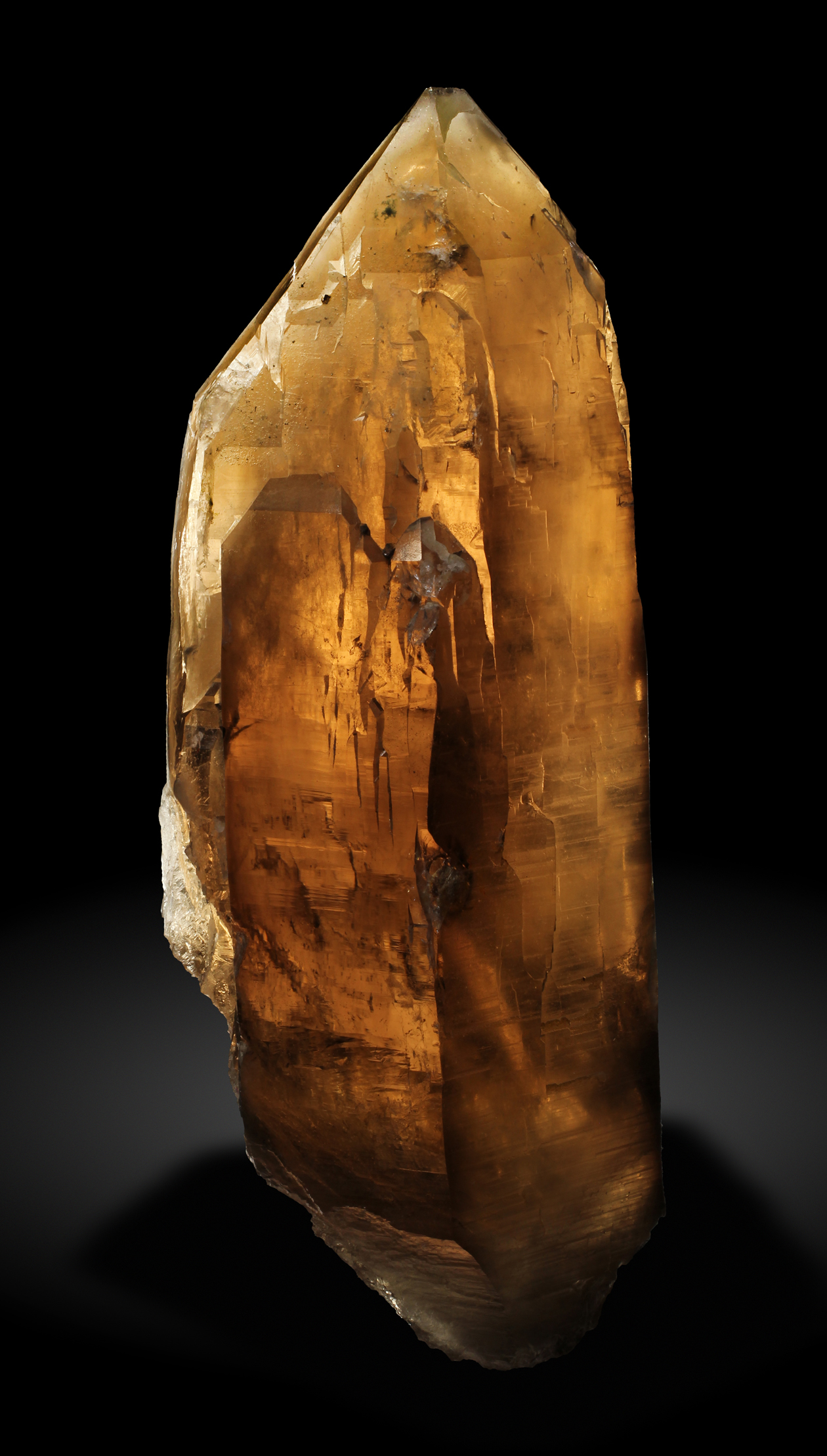 Smoky quartz crystal from Mas Sever quarry, Sils, Gerona, España .Height 8,5 cm. Col. Miguel Calvo. Photo Joaquim Callén